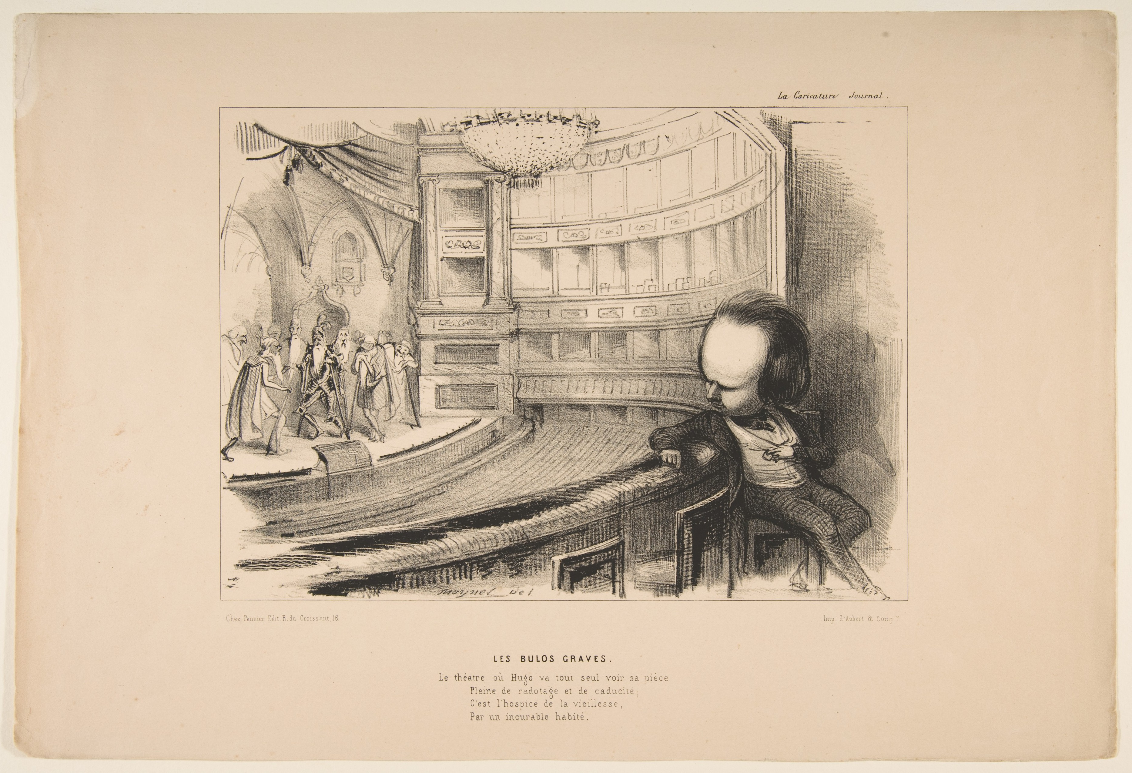 Print; Prints